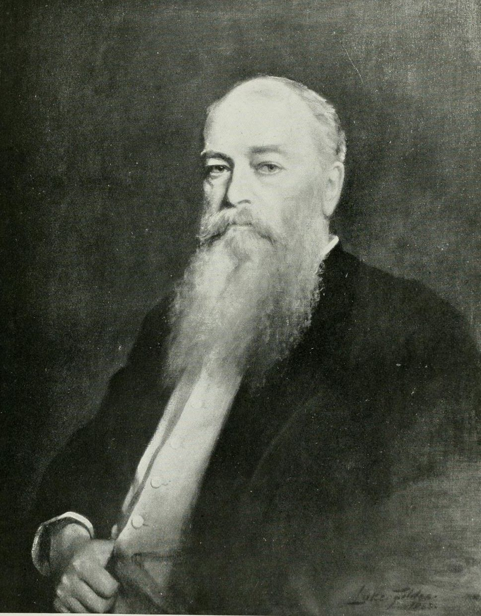 Frank Reddaway, businessman